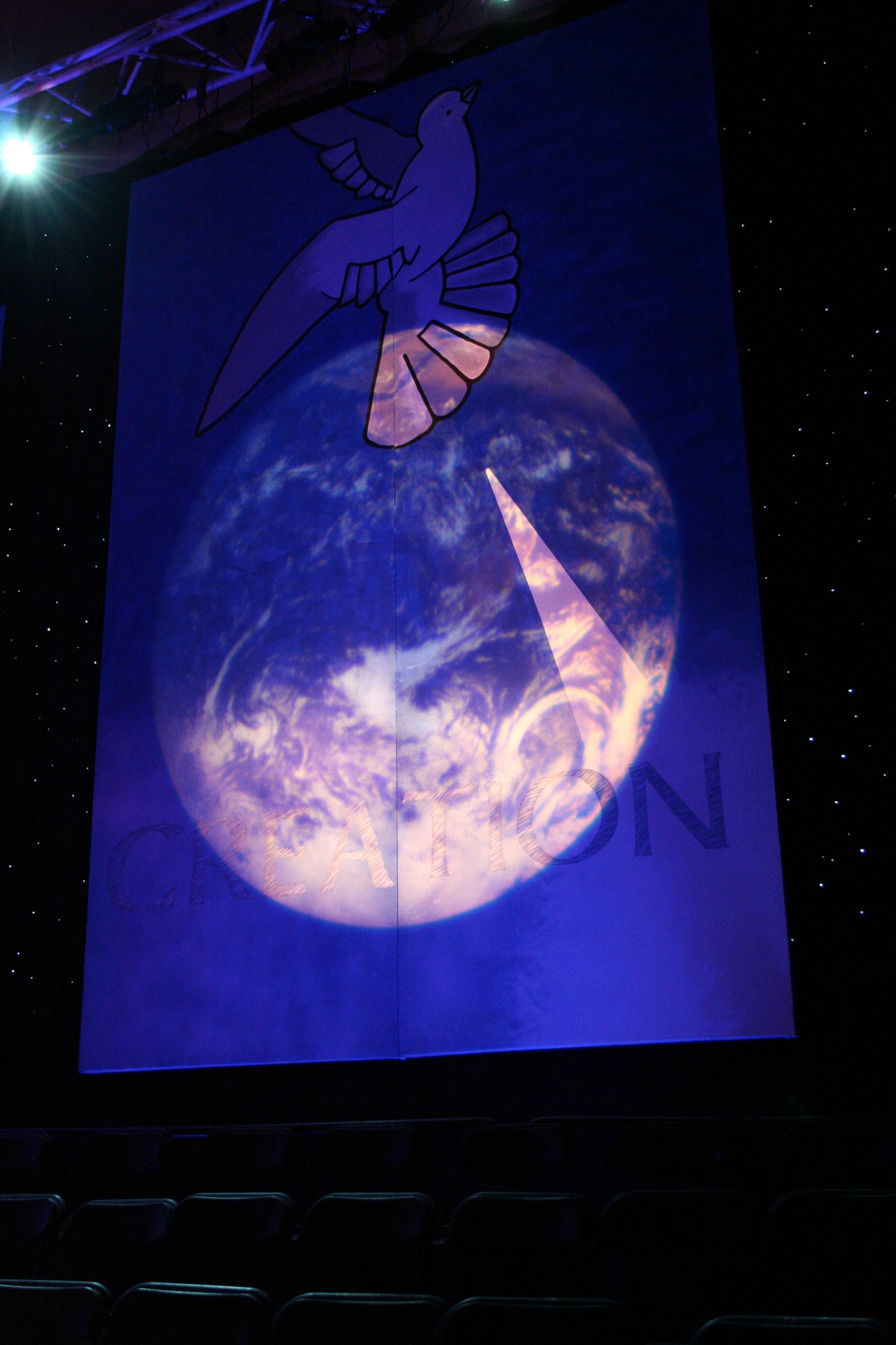 Earth Gobo projected on a backdrop of the Concordia Christmas Concert